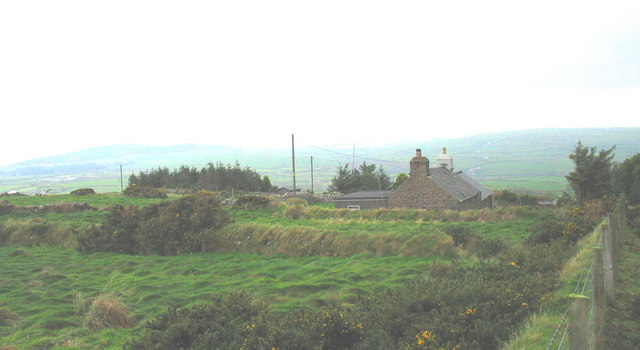 Castell Caeron - an Iron Age Hill Fort This stone-walled fort was strategically situated on a rock-sided knoll on the north-western slope of Mynydd Rhiw. The cottage, Pen y Castell, as the name suggests, is located at the top of the fort.